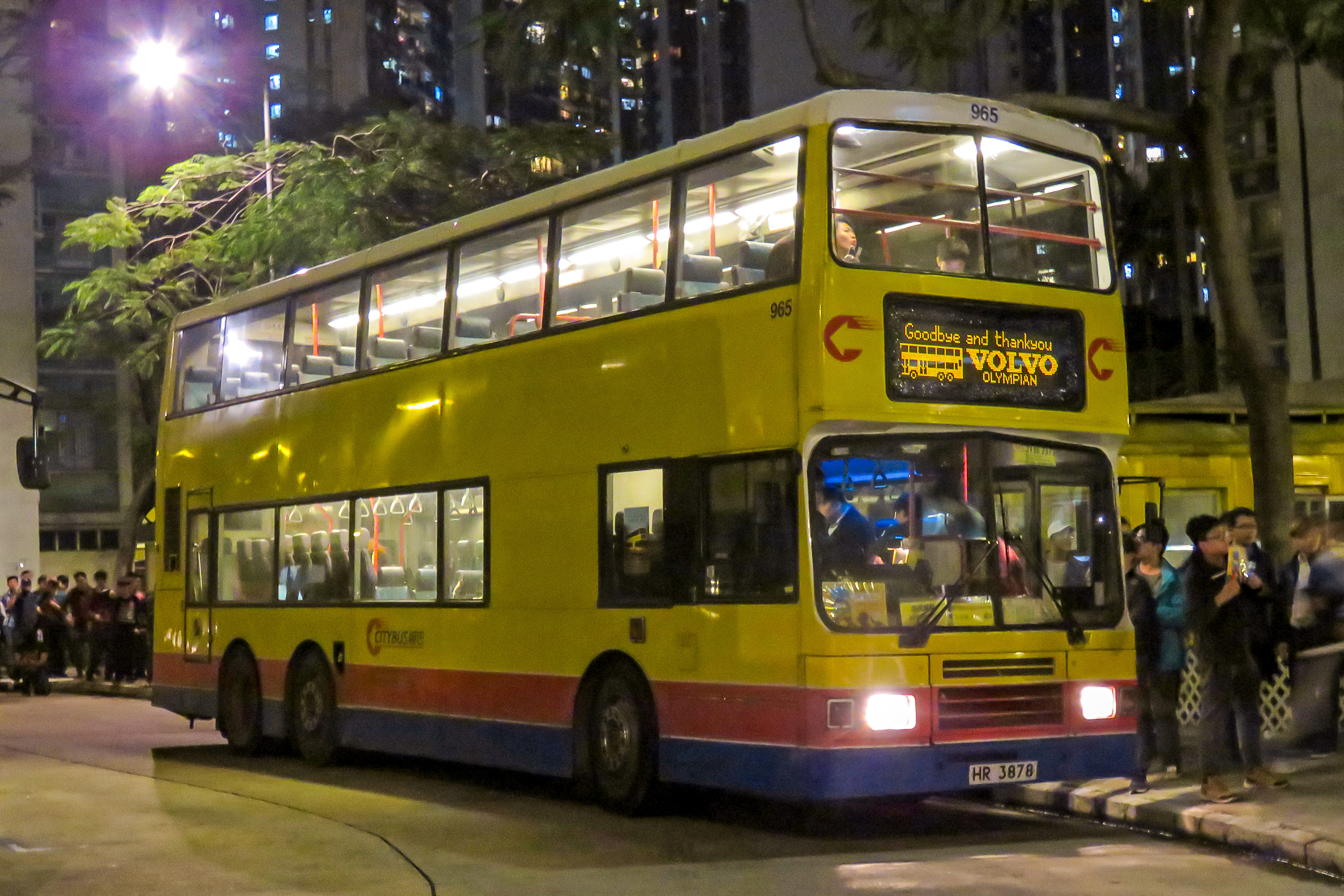 【伝説から神話へ -OLYMPIAN…AT LAST-】Special display: "Goodbye and thank you, Volvo Olympian".